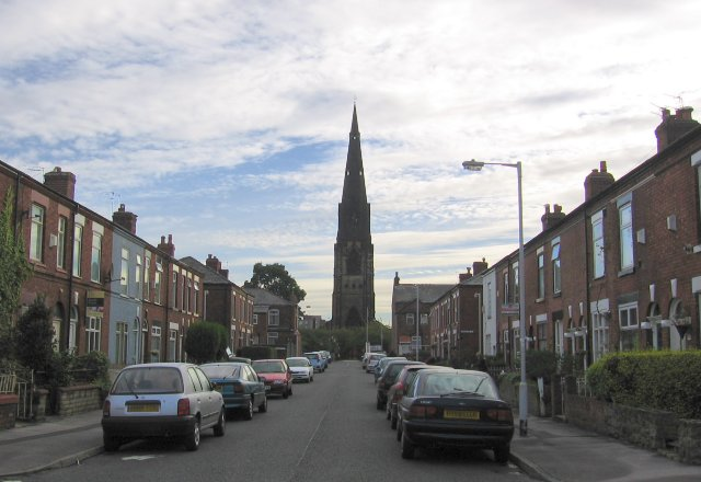 St. Matthew's Church, Edgeley. SJ8889 is mostly terraced houses, with this church standing tall among them.